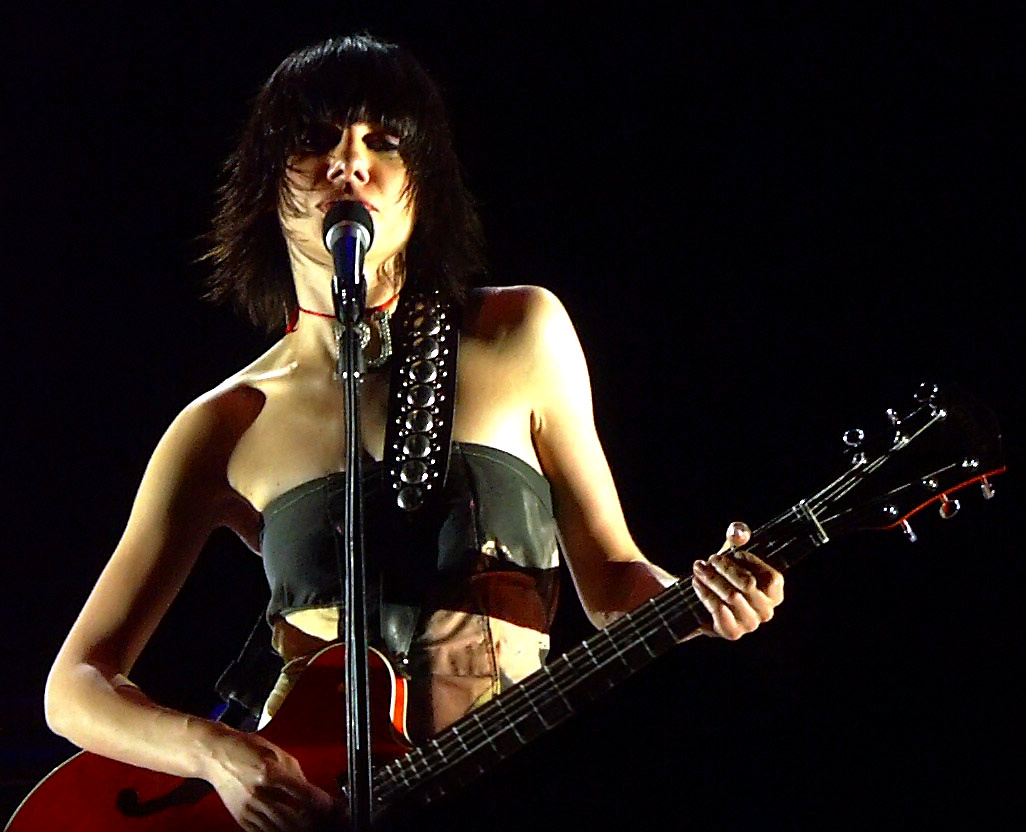 PJ Harvey in concert